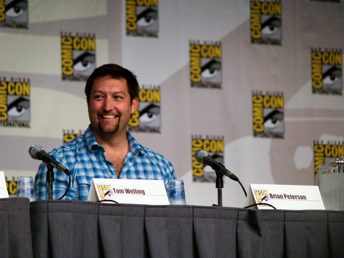 Brian Wayne Peterson at the 2010 ComicCon Smallville Panel.